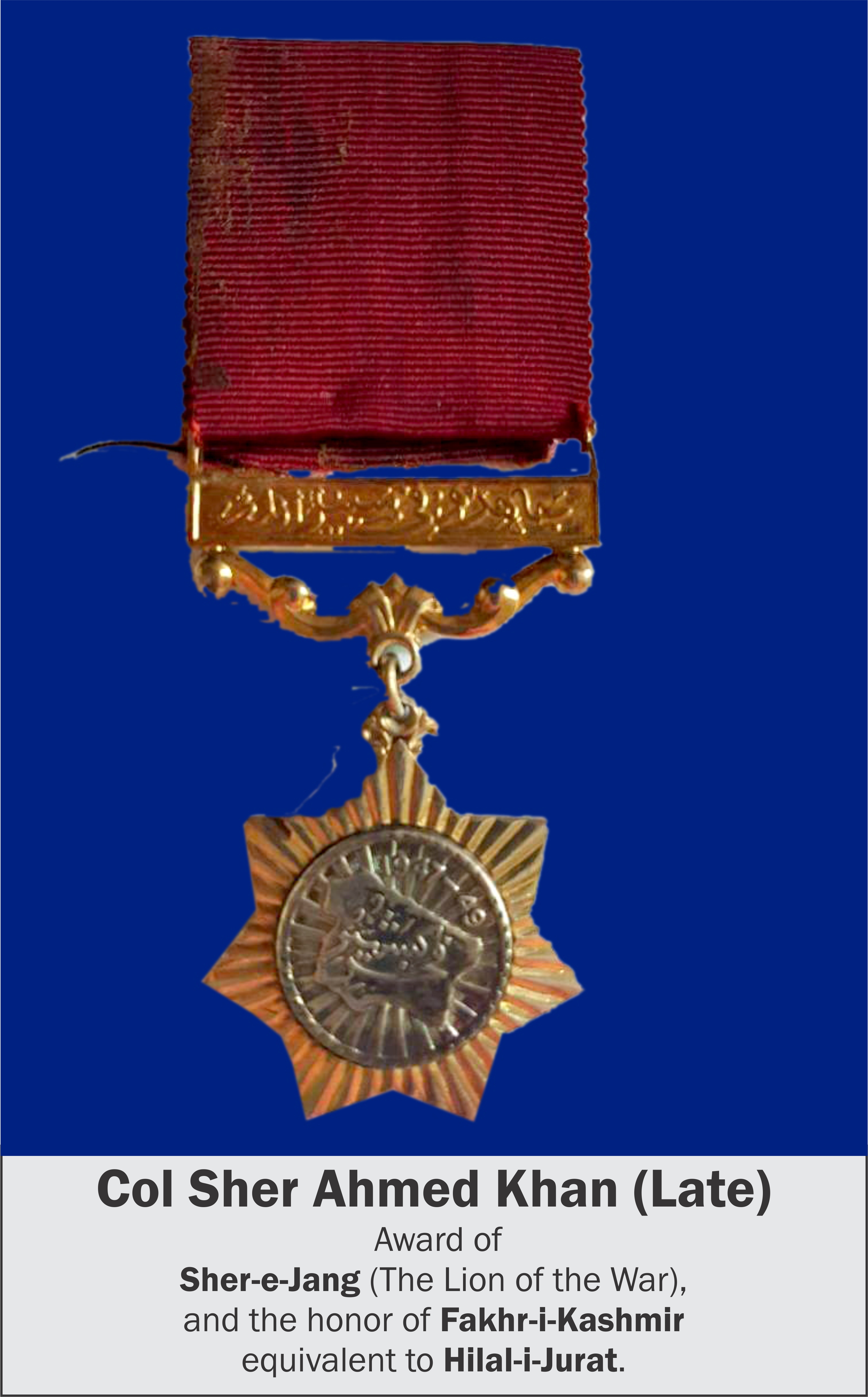 Fakhr-i-Kashmir